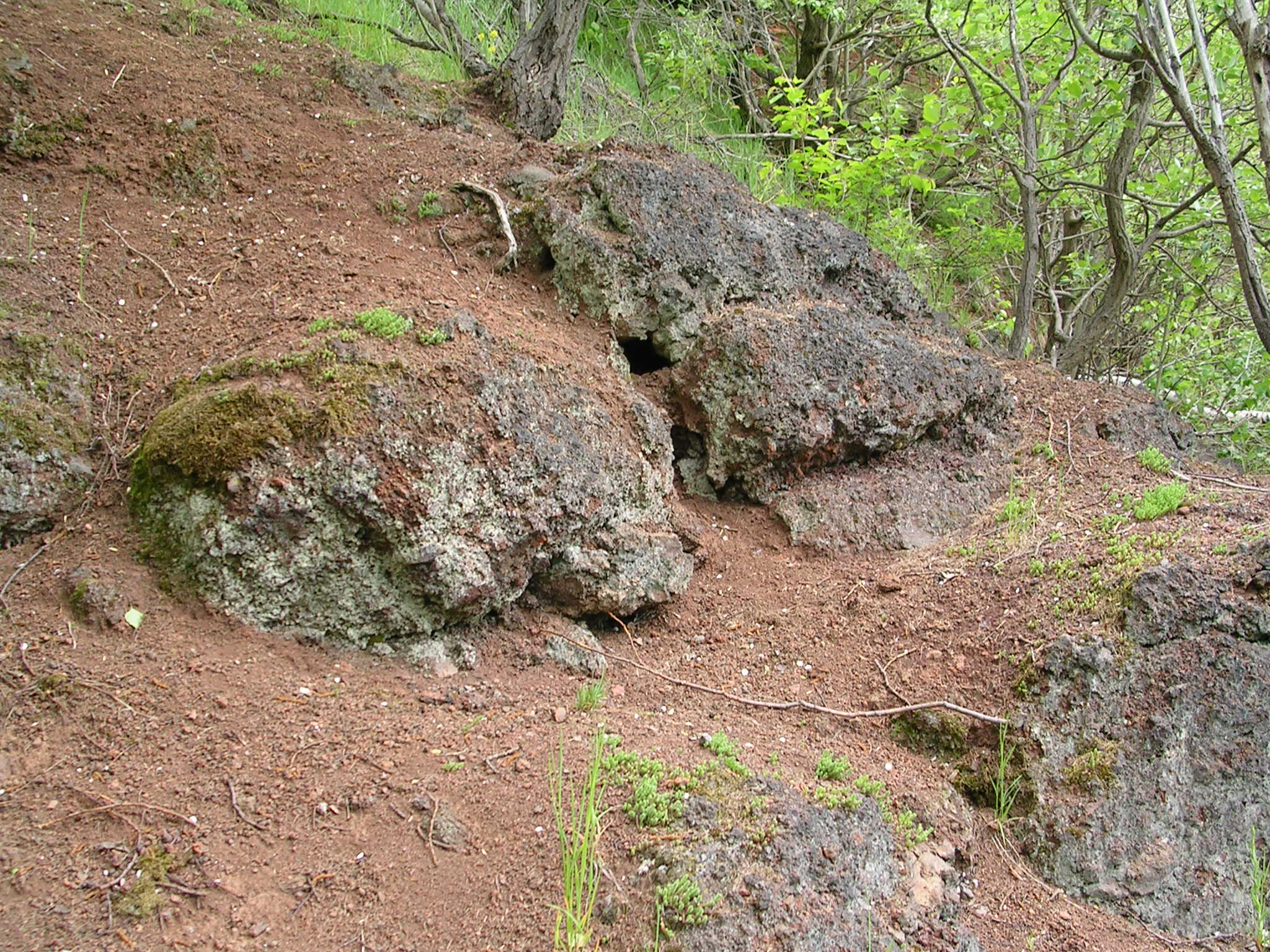 Natural monument Uhlířský vrch in Bruntál District, Czech Republic